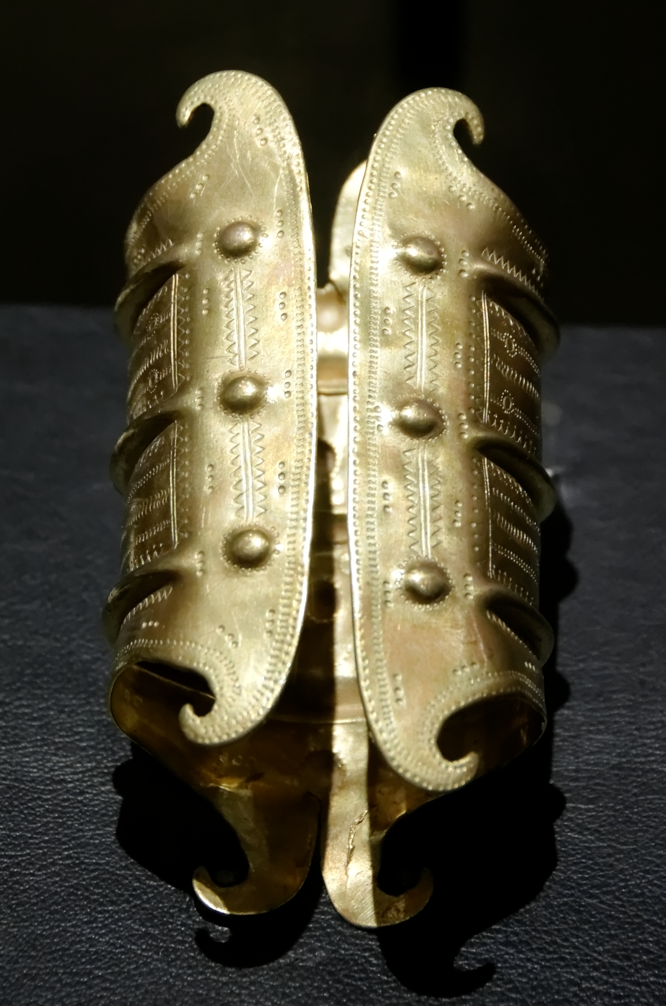 Ornameted gold bracelet from Dunavecse (Hungary), Bronze Age. Hungarian national museum, Budapest